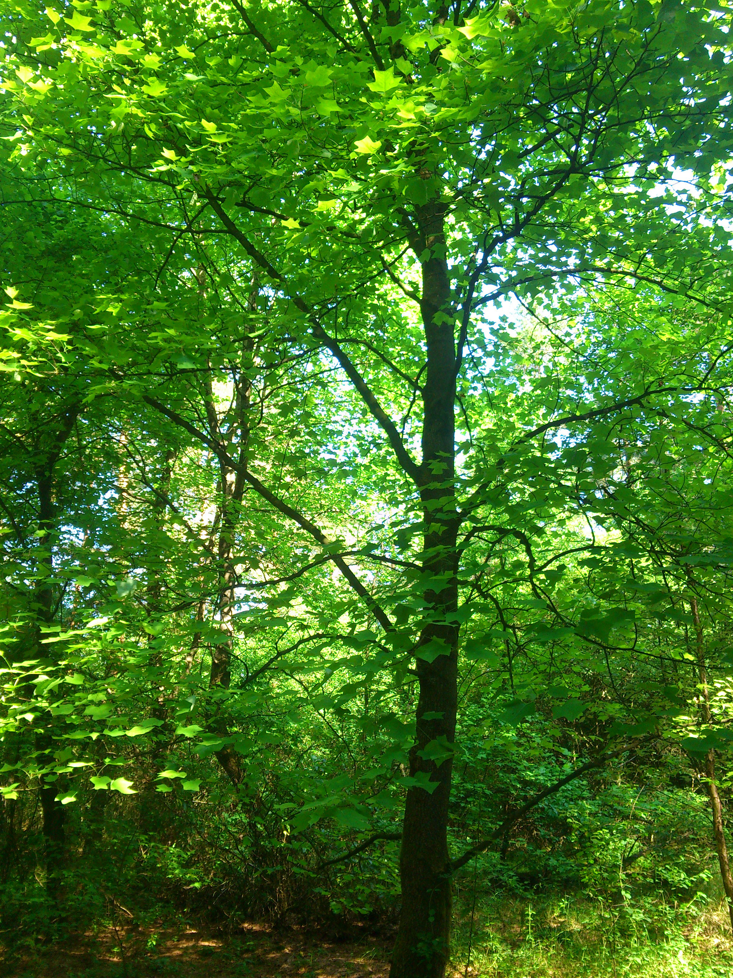 Liriodendron tulipifera photographed near Kulsøen (Coal Lake) north of Troldhede, Jutland, Denmark